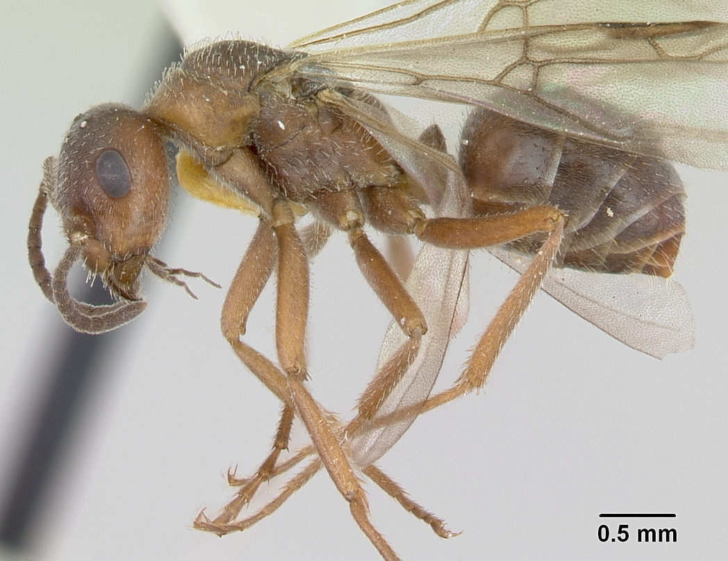 Profile view of ant Formica talbotae specimen casent0103454.